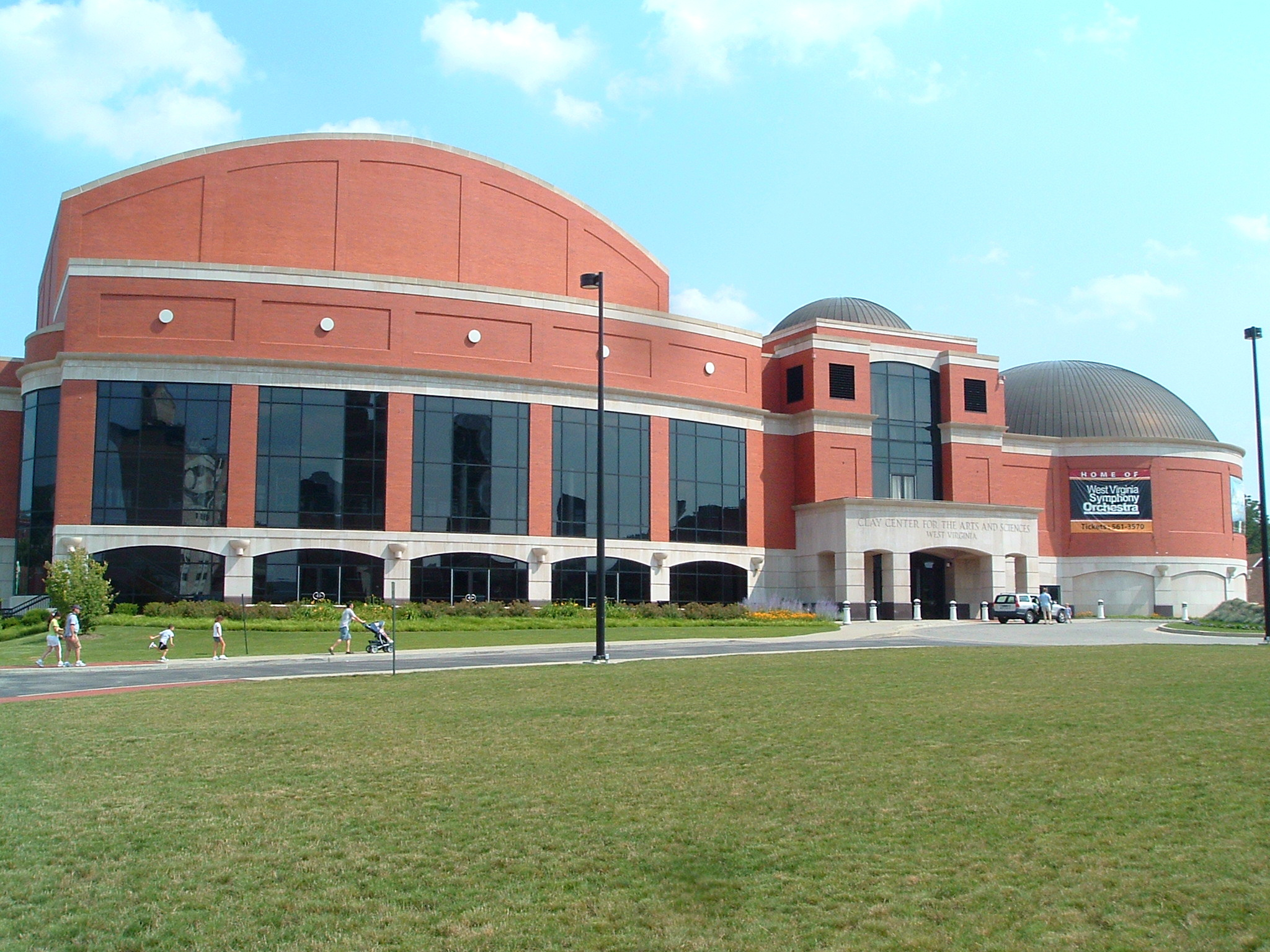 The Clay Center in Charleston, West Virginia. Self made photo.